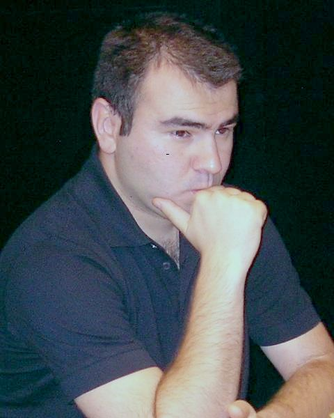 Shakhriyar Mamedyarov, Dortmunder Schachtage 2010, Photographer Gerhard Hund.